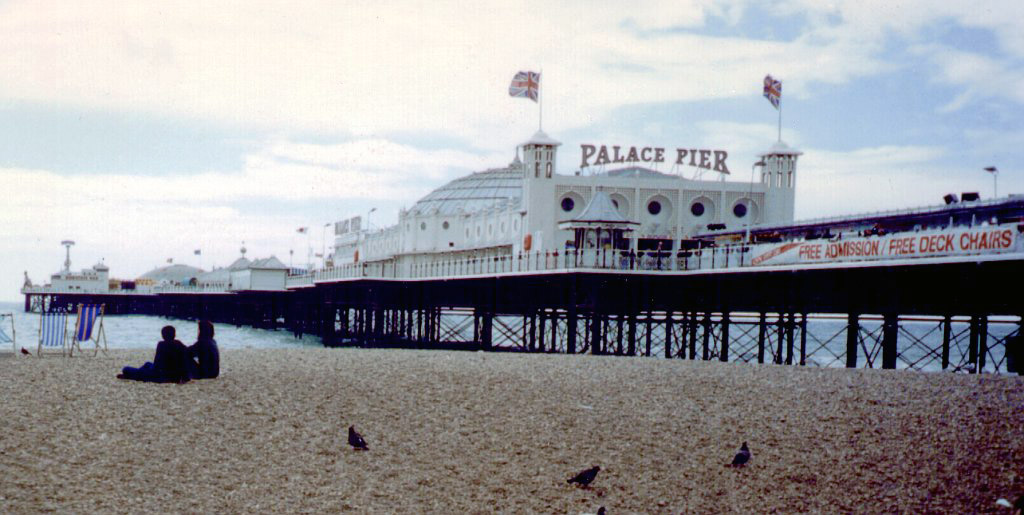 Brighton Pier.